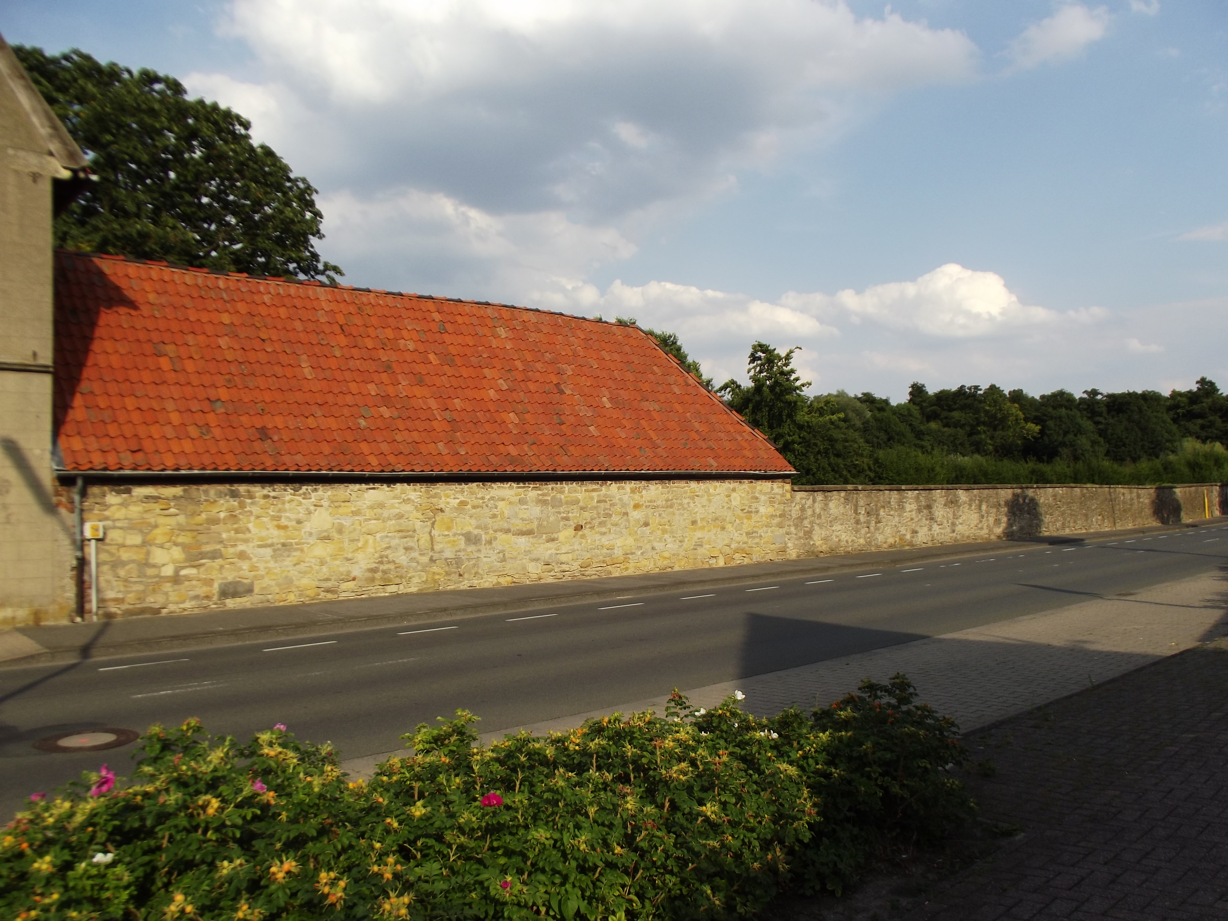 A part of the ancient wall of the Commandry (Order of Knights of St. John of Jerusalem) still exist, although ramshackle